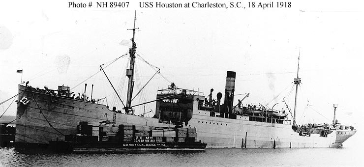 USS Houston (AK-1)